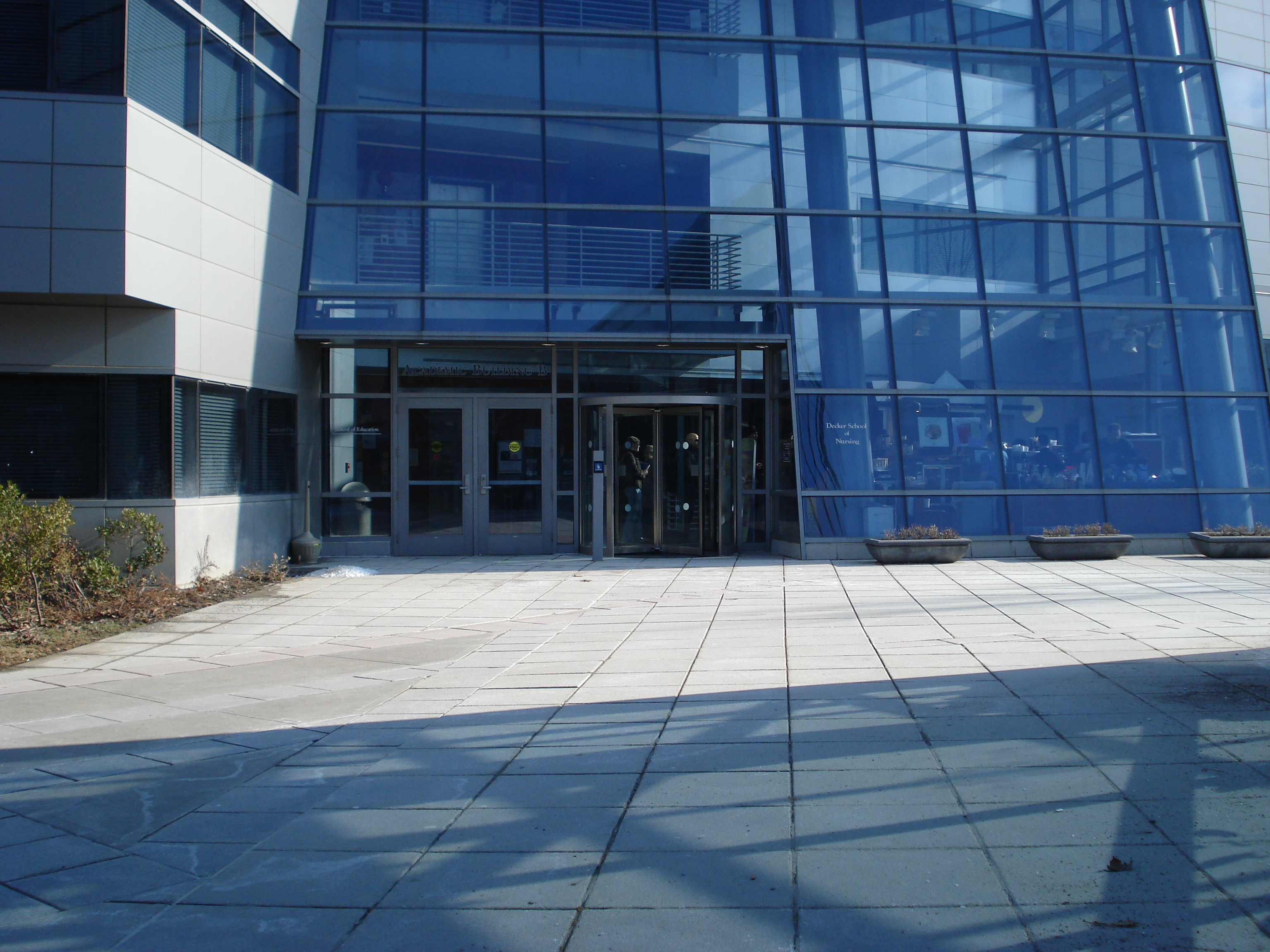 Binghamton University Campus, Nursing School Bldg